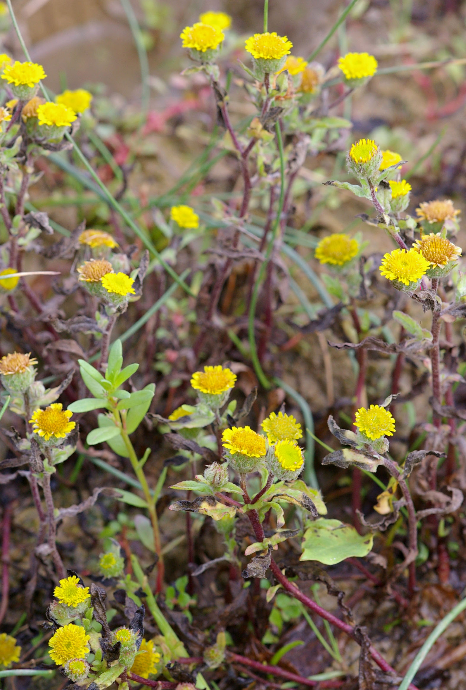 Flowering plants of Pulicaria vulgaris (Asteraceae).